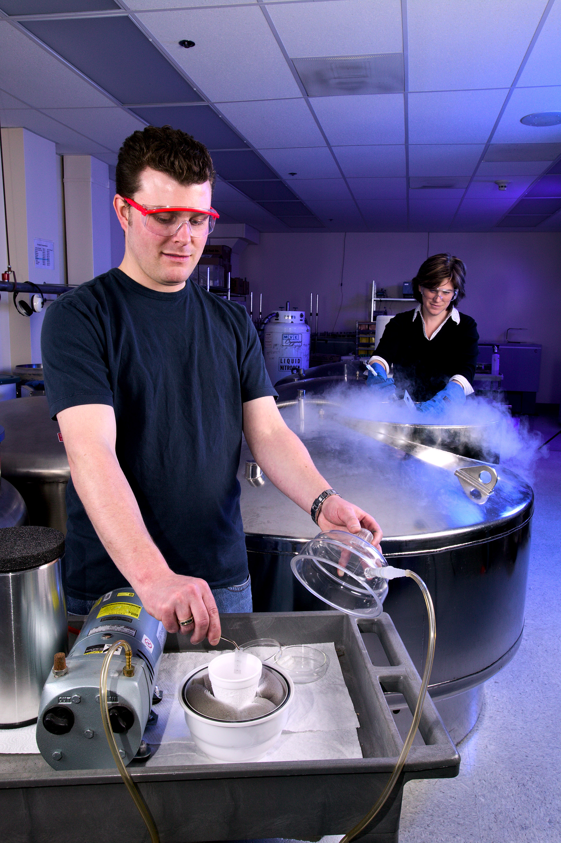 Cryopreservation of plant shoots. Original caption: "Technician Remi Bonnart (foreground) flash-freezes plant shoot tips while plant physiologist Christina Walters places cryopreserved materials into cryovats for long-term storage. Droplets of cryoprotecting solution hold shoot tips onto foil strips. The strips are plunged into liquid nitrogen slush that is formed by placing liquid nitrogen in a vacuum."